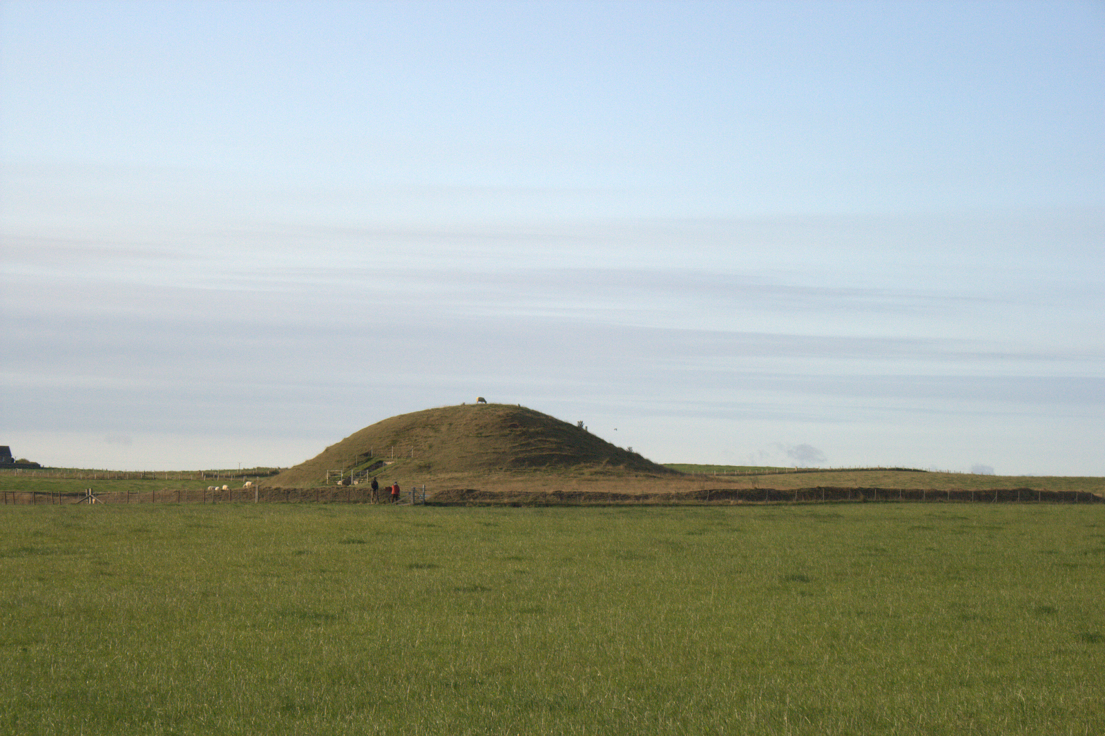 Maeshowe, chambered cairn at Orkney (Scotland).There is a sheep on the top of the tomb.